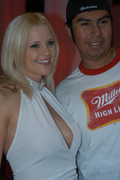 Hannah Harper, taken at the AVN Expo on January 9, 2005